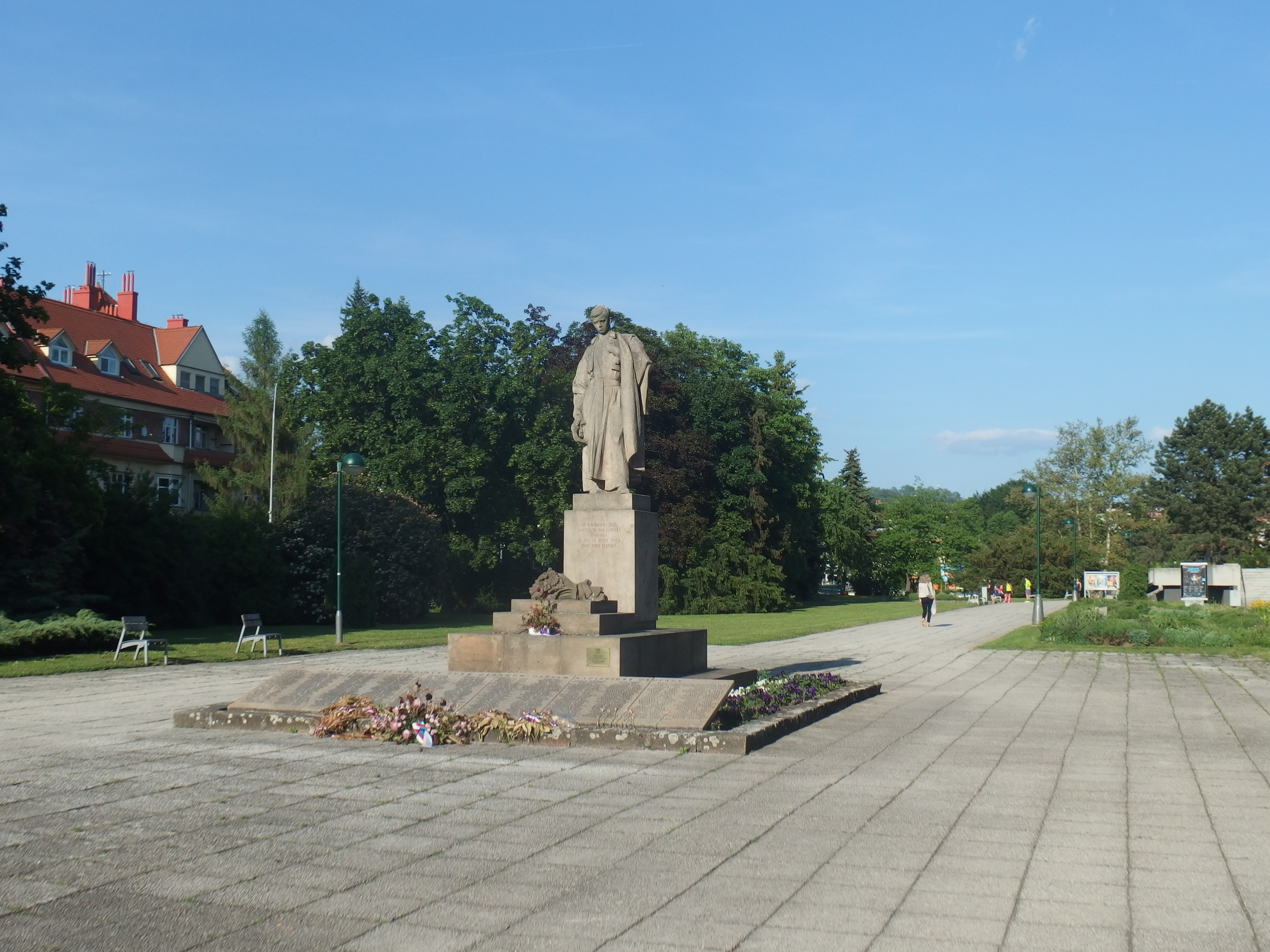 Uherské Hradiště, Czech Republic. Monument to the liberators.